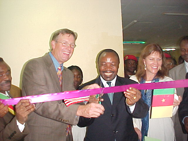 U.S. Ambassador R. Niels Marquardt and East Province, Cameroon, Governor Nlom at the opening of the American Corner in Bertoua, East Province, Cameroon, 1 December 2004.